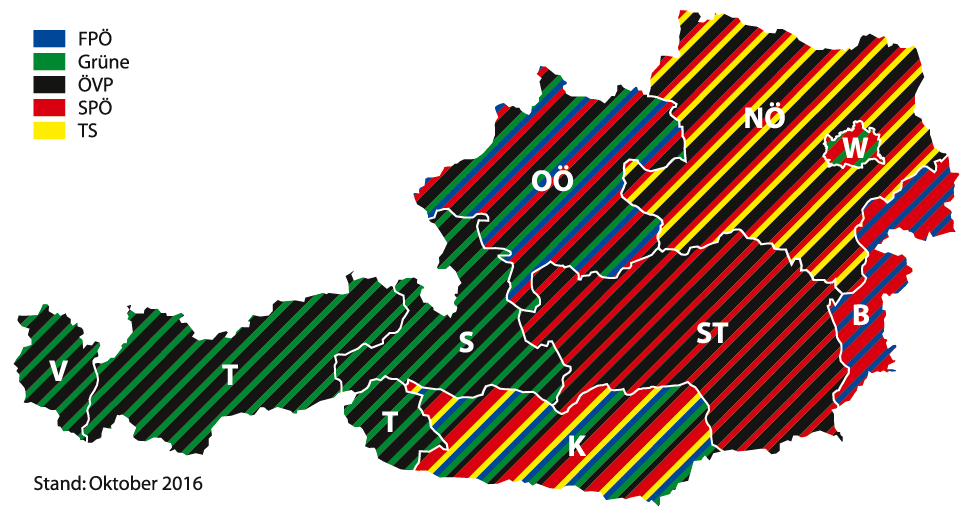 Governments of the Austrian states, October 2016